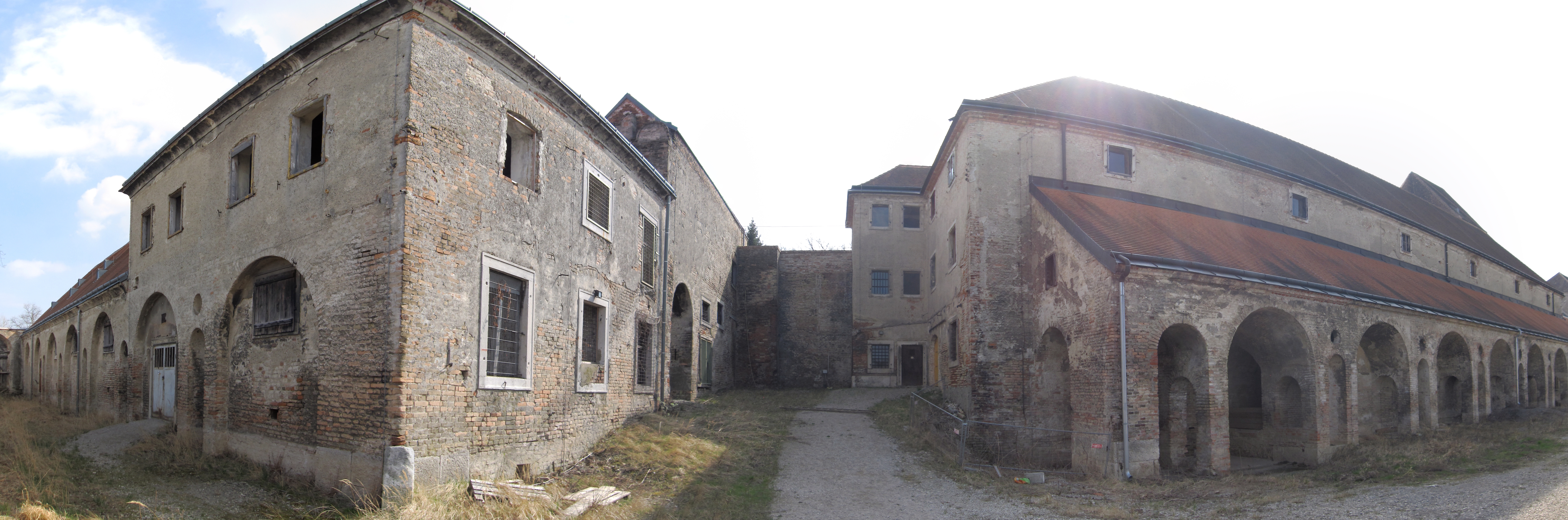 Neugebäude Palace in Vienna.